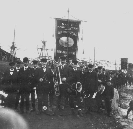 May day celebrations in Sulitjelma, Fauske in Norway, the year isn't 100% sure, it might be a cupple of years later